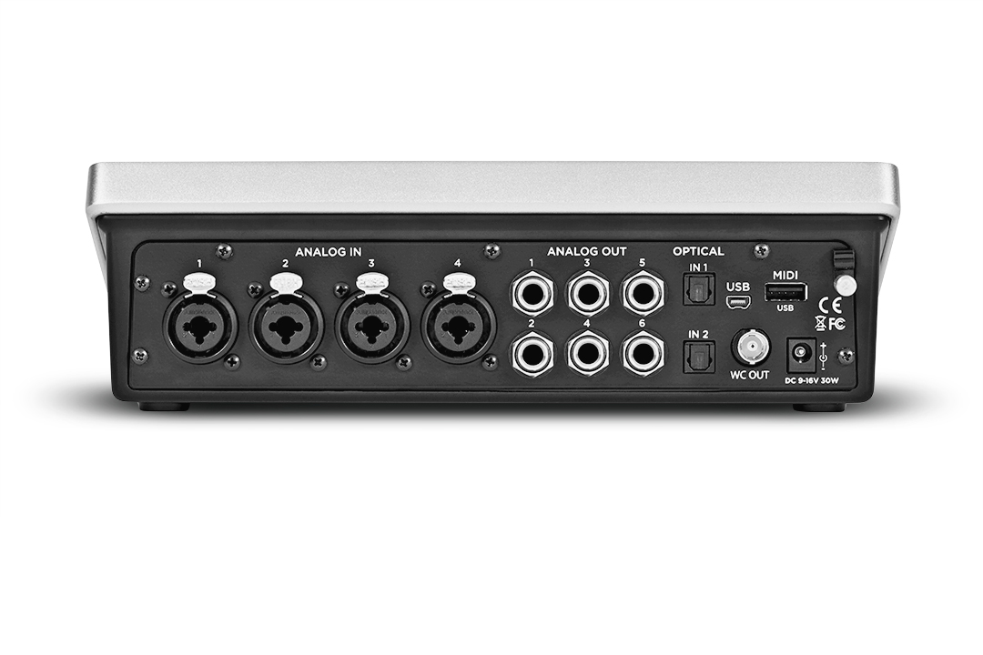 Apogee Quartet Rear View Product Photography Photographer: David Podosek 2013